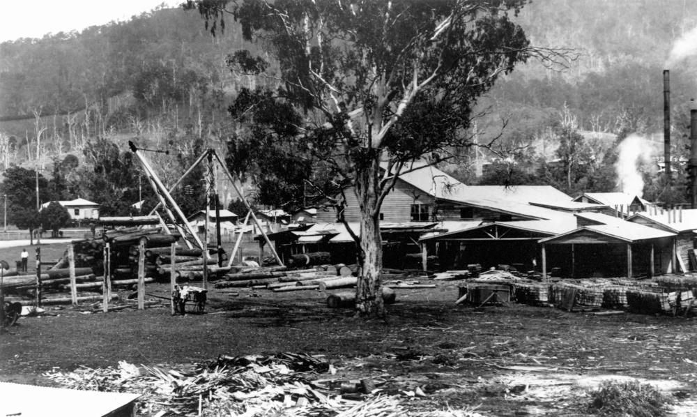 Yard of the Standply Timber Company, Canungra, 1935 Timber and building materials ready for sale.j.